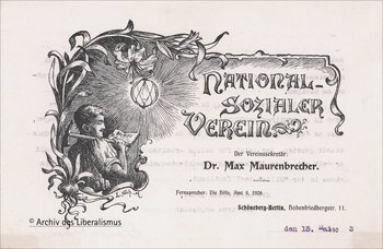 Letterhead of the National-Social Association.